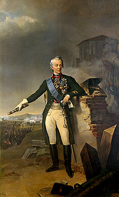 Alexander Vasilievich Suvorov (1730-1800), Russian generalissimo, count and prince. Suvorov is depicted in his uniform of the Preobrazhensky Regiment worn during the reign of Paul I of Russia. Awards on the portrait are as follows (from left to right and from top to bottom): Order of St. Anna (awarded September 30, 1770) portrait of the Emperor Paul I of Russia Star of the Order of St. Andrew the First-Called (awarded September 9, 1787) Order of Saints Maurice and Lazarus Badge of the Order of the Black Eagle Star of the Order of St. George, 1st class (awarded October 18, 1789) Grand Cross of the Order of St. John of Jerusalem (awarded February 9, 1799) portrait of Francis II, Holy Roman Emperor Order of Maria Theresa Star of the Order of St. Vladimir, 1st Class (awarded July 28, 1783) The blue sash stretching from the right shoulder to waist is that of the Order of St. Andrew the First-Called. Under the blue sash, the orange sash with three black stripes of the Order of St. George is visible.